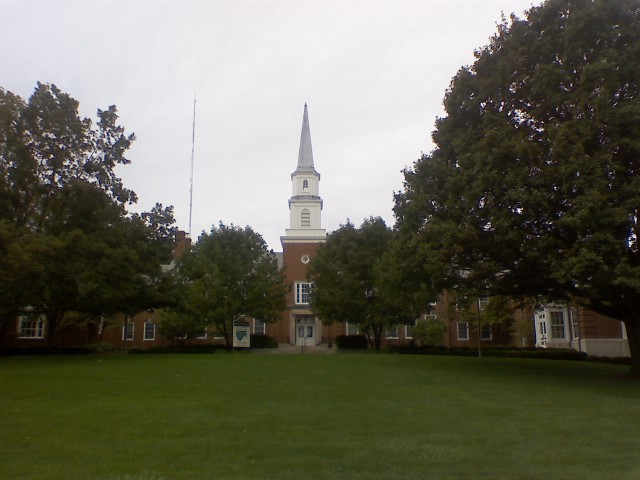 Robertson Hall